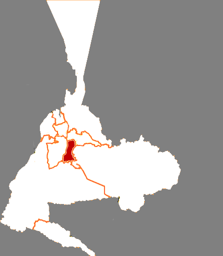 Location of Tianshan District in Urumqi City, China